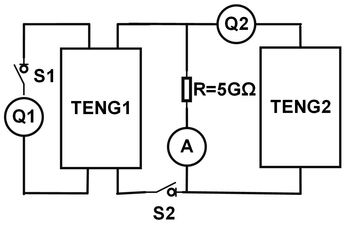 Breakdown measurement circuit